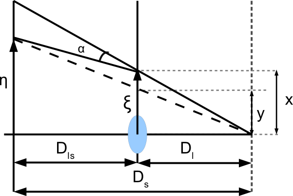 Geometry of gravitational lensing